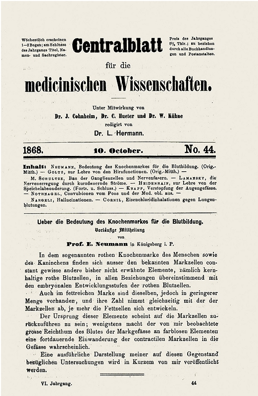 On 10. Oct. 1868 the bone marrow was first described as blood forming organ by Ernst Neumann (Pathologe) (1834-1918) in Koenigsberg, todays Kaliningrad. Neumann found out the "Lymphoide Markzelle" as later on "postembryonal pluripotent Stem Cell" in bone marrow.